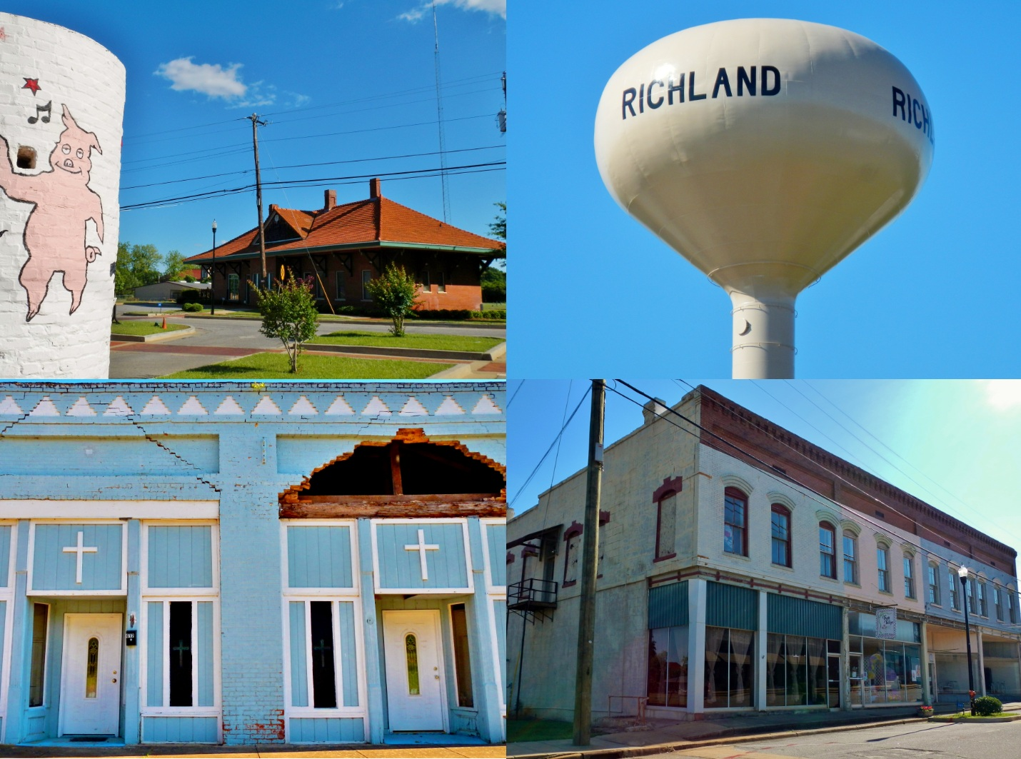 This is a photo collage of Richland, Georgia.